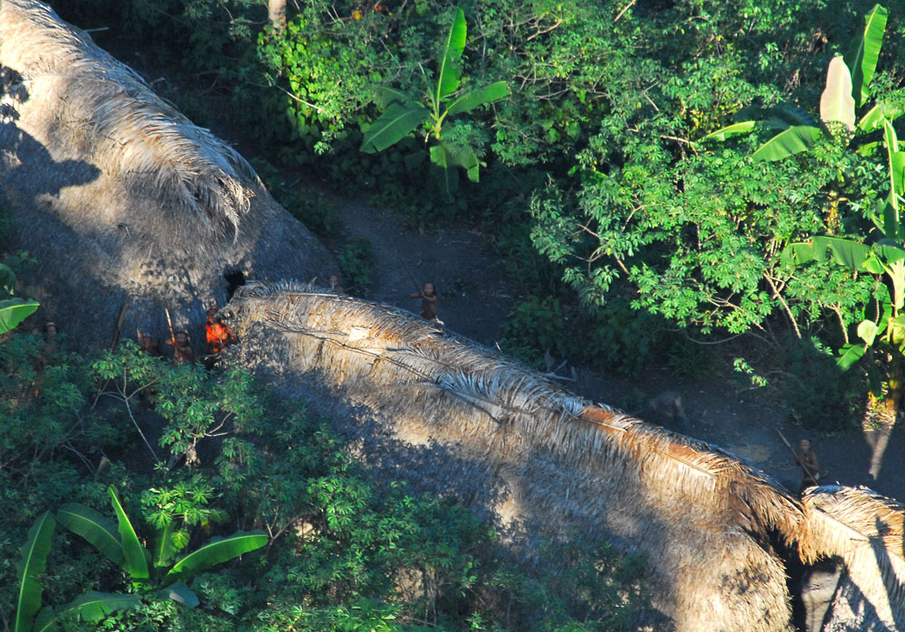 Uncontacted indigenous tribe in the brazilian state of Acre.